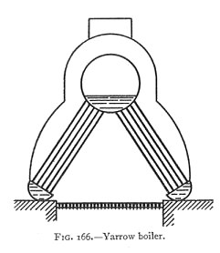 Yarrow boiler, diagram (Heat Engines, 1913).jpg